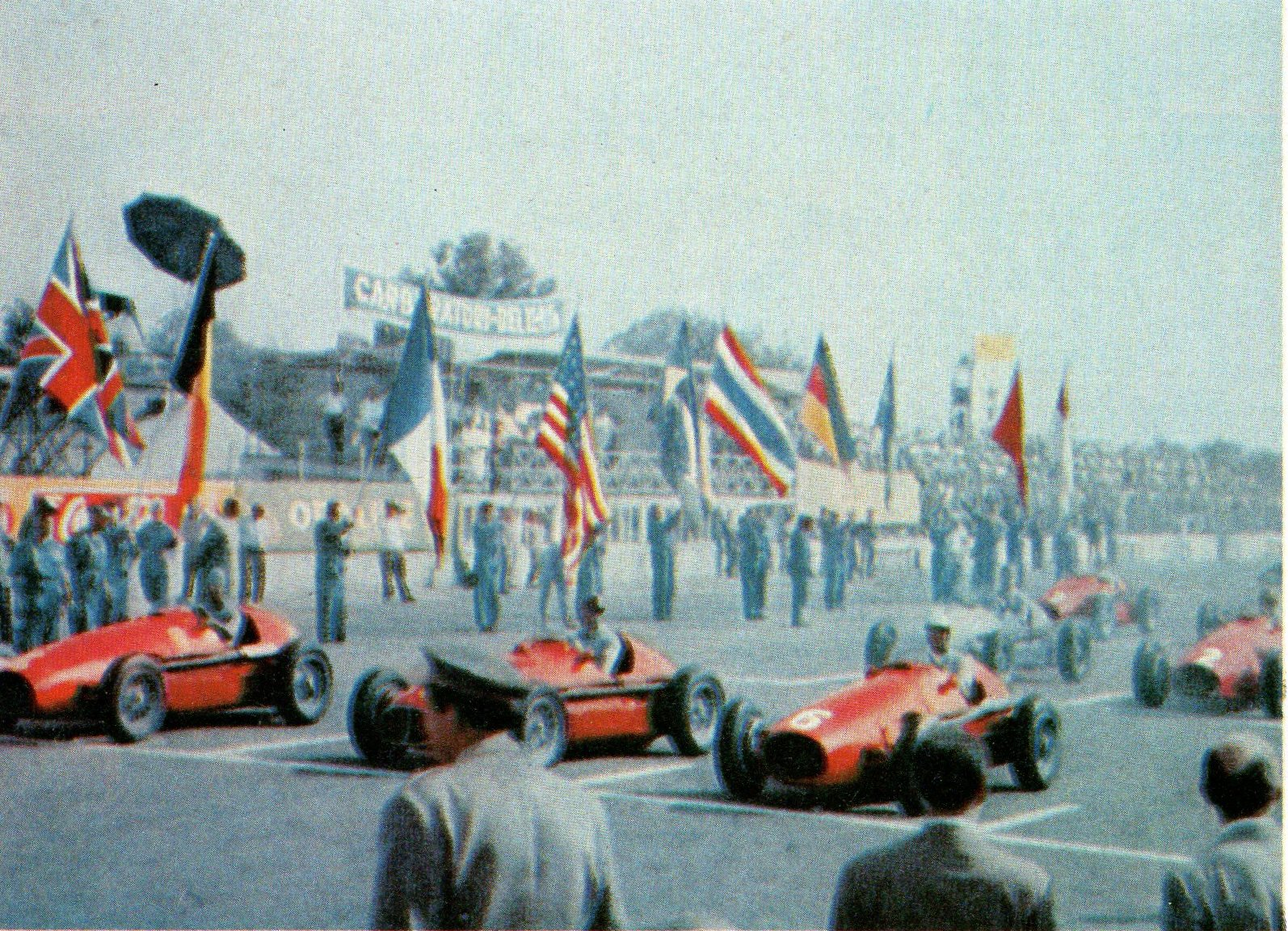 The starting grid for the 1953 Italian Grand Prix at Monza